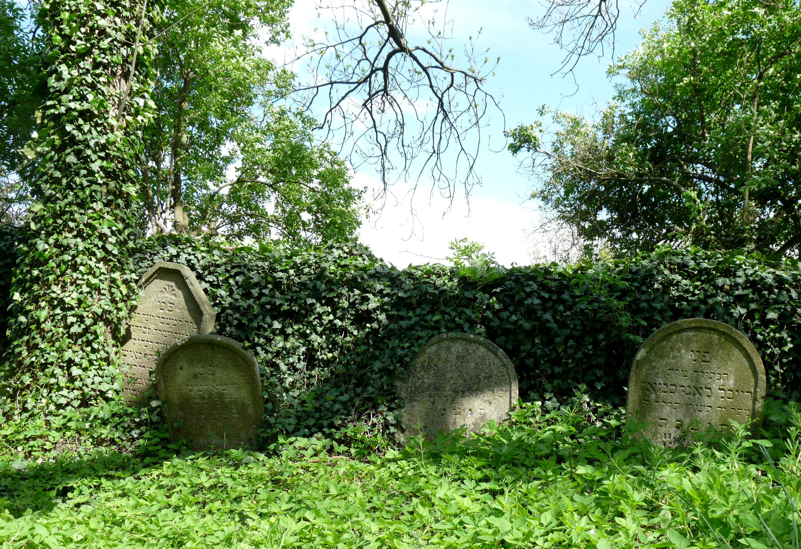 Jewish cemetery by the village of Střítež, Jihlava District, Vysočina Region, Czech Republic.